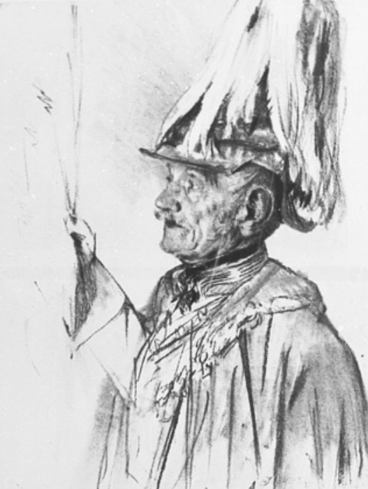 Friedrich Graf von Wrangel